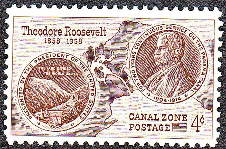 US Postage stamp/Canal Zone: T.Roosevelt, 1958 issue, 4c